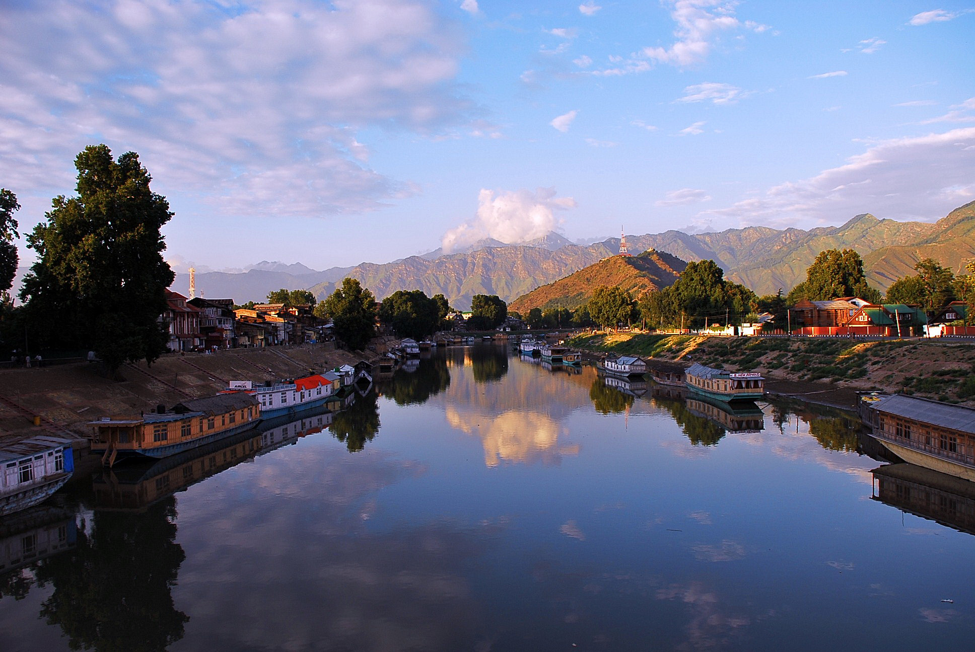 River Jhelum, Srinagar Kashmir See more pics at Flicker for Kashmir; Flickr Pool and Kashmir set at Flickr